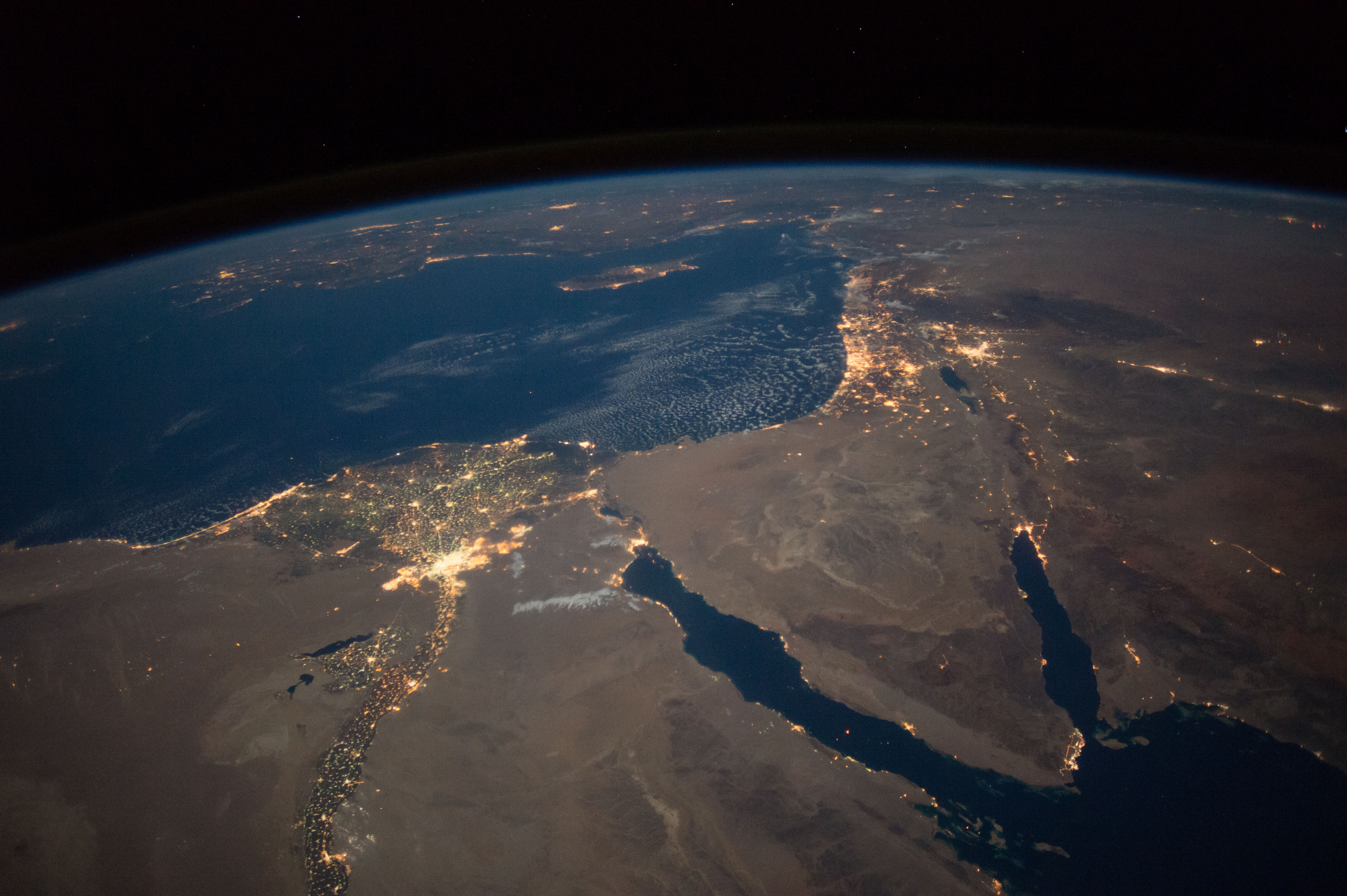 This nighttime view of northern Egypt and the Sinai Peninsula was captured by the Expedition 49 crew aboard the International Space Station. The city of Cairo can be seen to the left at the top of the Nile river. Atop the sparsely lit Sinai Peninsula can be seen cities in Israel, including the brightly lit city of Tel Aviv on the Israeli coast along the Mediterranean sea.